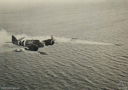 Australian War Memorial image UK1906. A No. 455 Squadron RAAF Bristol Beaufighter firing rockets near Norfolk, England during September 1944